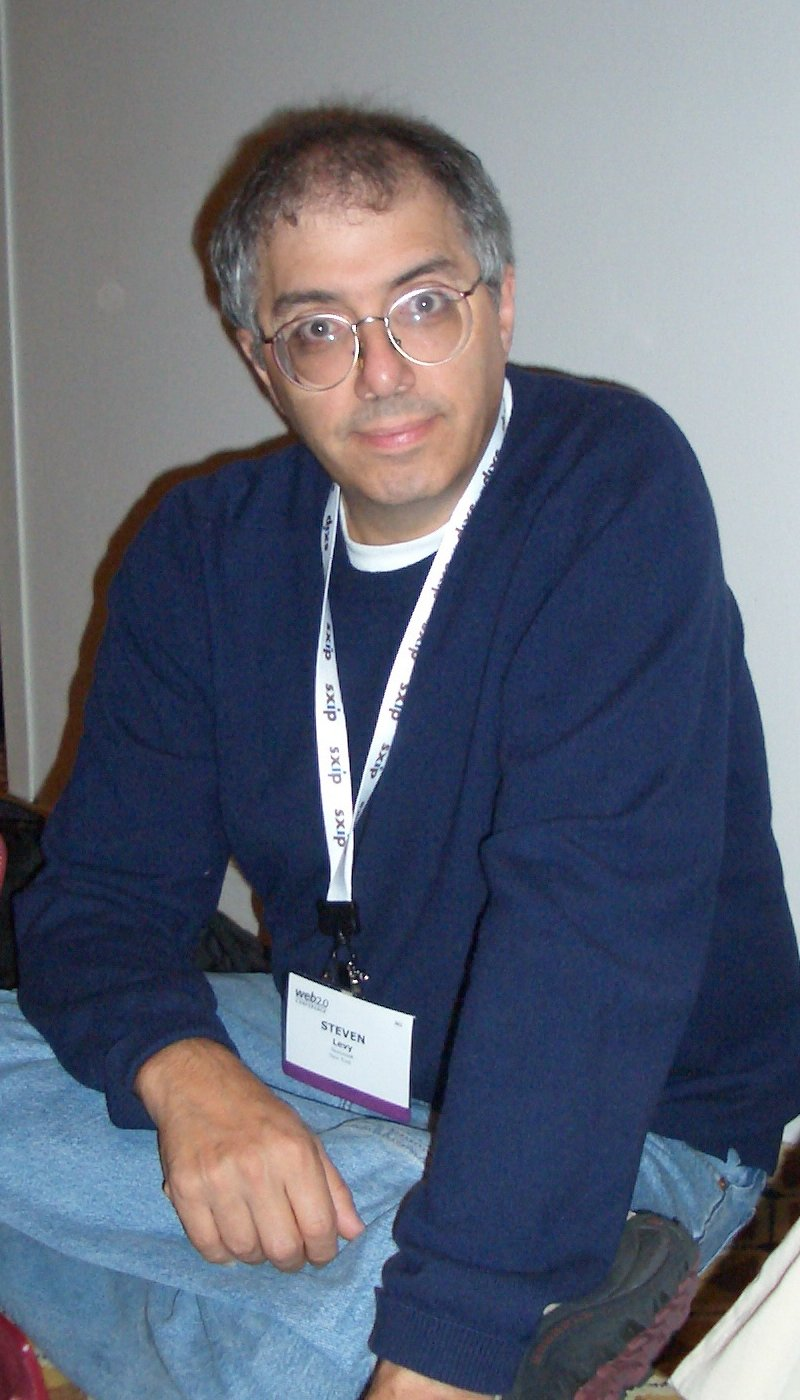 Steven Levy.